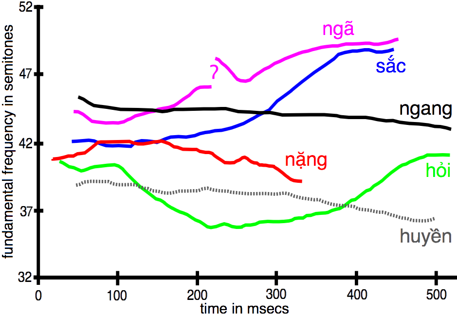 pitch contours and duration of Non-Hanoi Northern Vietnamese tones of a male speaker the glottal stop [ʔ] marks the glottal closure in the middle of the ngã tone adapted from Nguyễn & Edmondson (1998: 8-9).